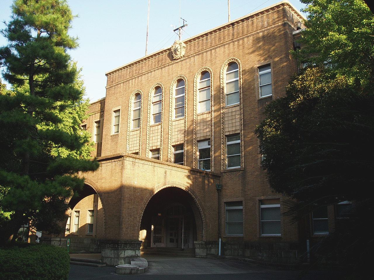 The No. 1 Building of Etchujima Campus, Tokyo University of Marine Science and Technology (TUMSAT).Built in 1930 as the main building of Tokyo Nautical College.Located in Koto-ku, Tokyo, Japan.